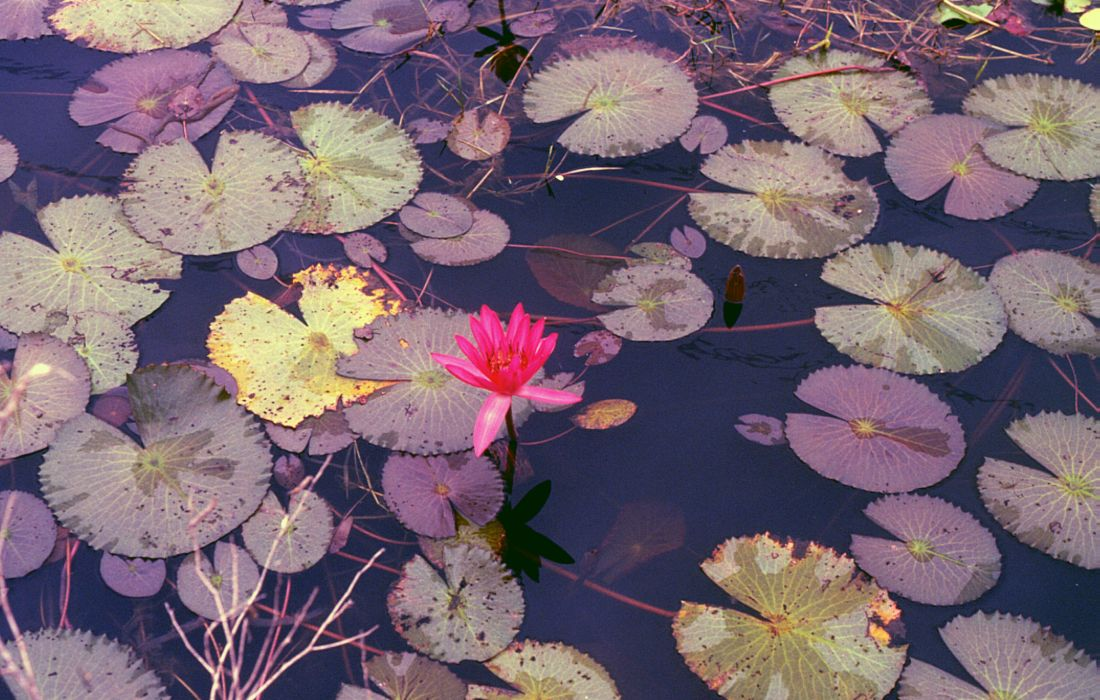 Nymphaea lotus var. pubescens, rote Form/red form, Nymphaeaceae - Kambodscha/Cambodia, nahe Sambuor W Takeo (Prov. Takeo)